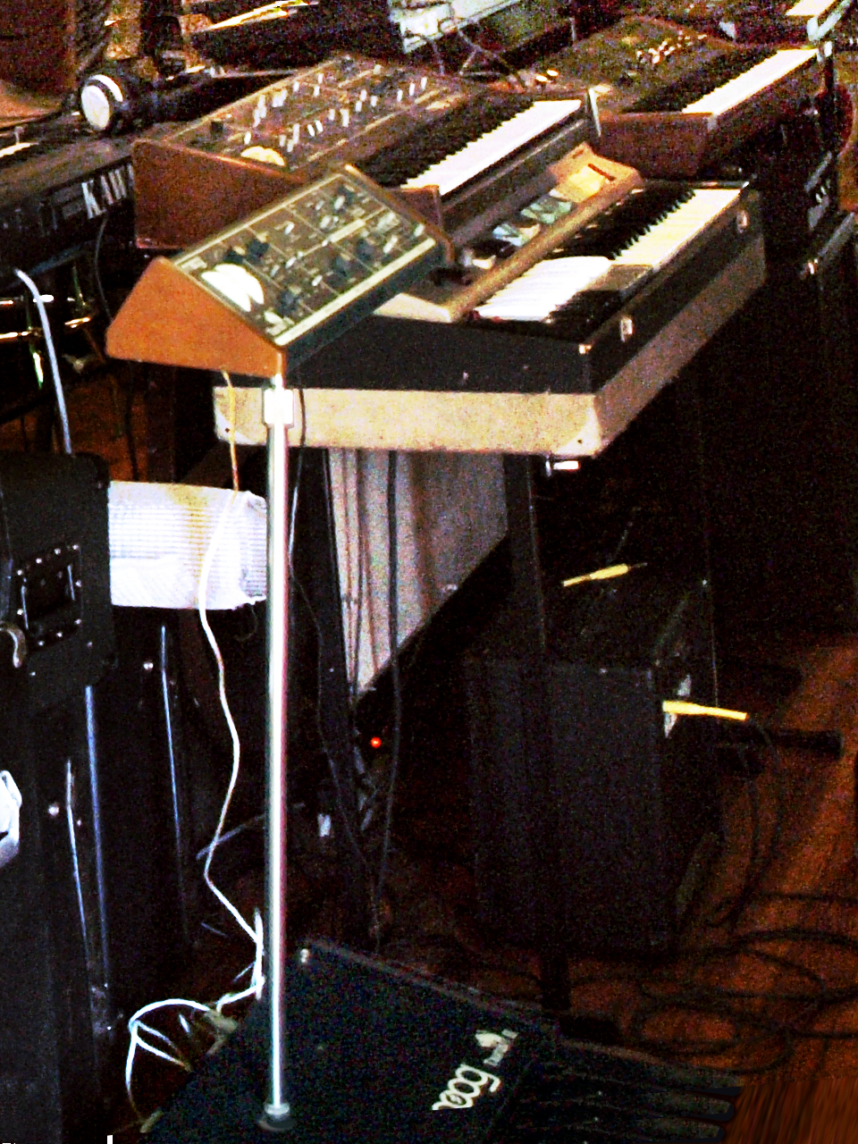 Moog Taurus II Moog Rogue Farfisa Combo Compact I[1] Yamaha SK Robot Monster Guitars & Collectables, 517 E Woodlawn Ave @ N St Marys Street